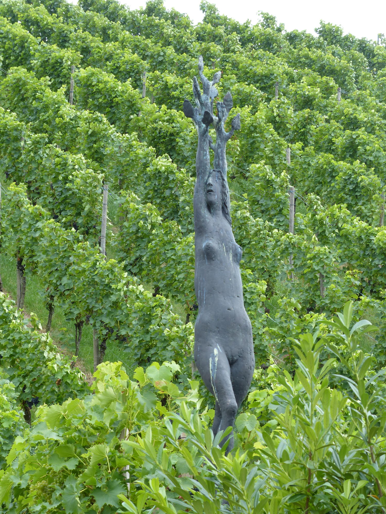 Sculpture trail in Winterbach-Strümpfelbach, Germany. "Daphne" by Karl-Ulrich Nuss, 2001